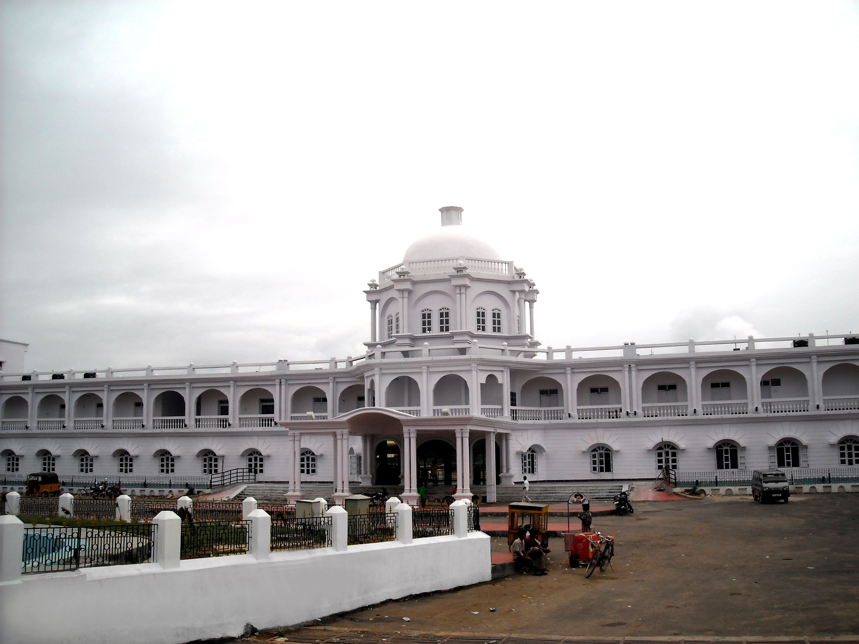 Agartala Station